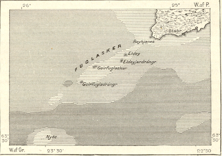 1890s wood engraving map of Fuglasker islands, including Eldey, Eldeyjardrangr, Geirfuglasker, Geirfugladrangr, Nyöe